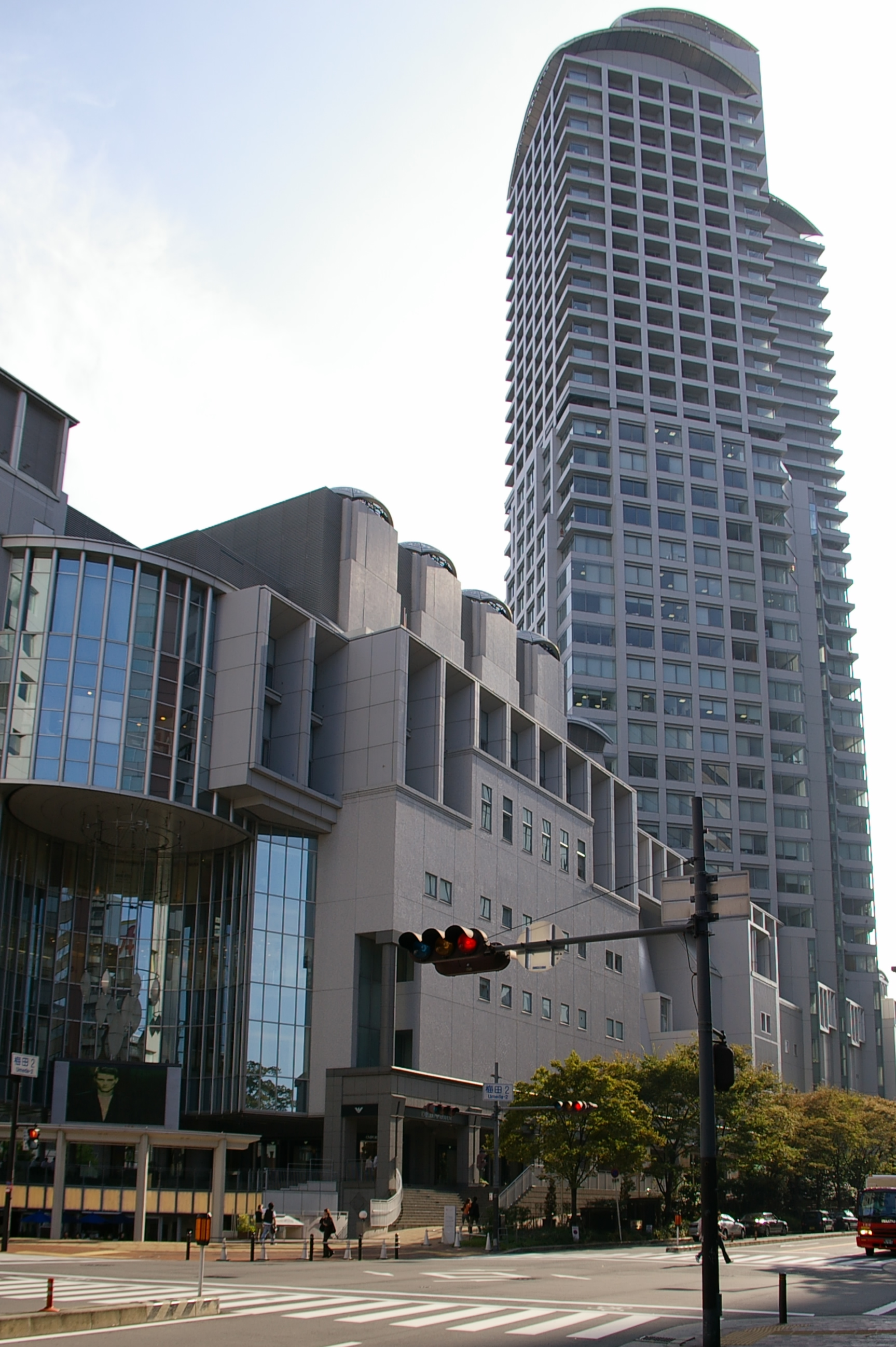 Photograph of Umeda Hanshin Dai-ichi Building, also called as HERBIS OSAKA, in Kita-ku, Osaka, Osaka Prefecture, Japan.